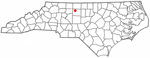 Category:North Carolina Dot Maps